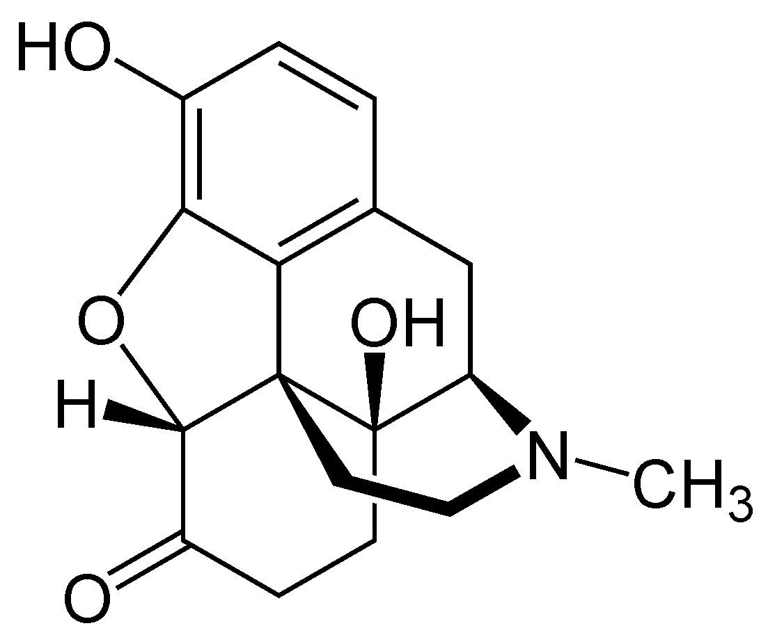 Oxymorphone